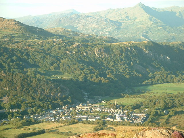 Tremadog village, Porthmadog, Gwynedd, Wales. Viewed from the summit of Moel y Gest, looking north. The two shapely summits are Cnicht on the right, and Moel Siabod in distance.